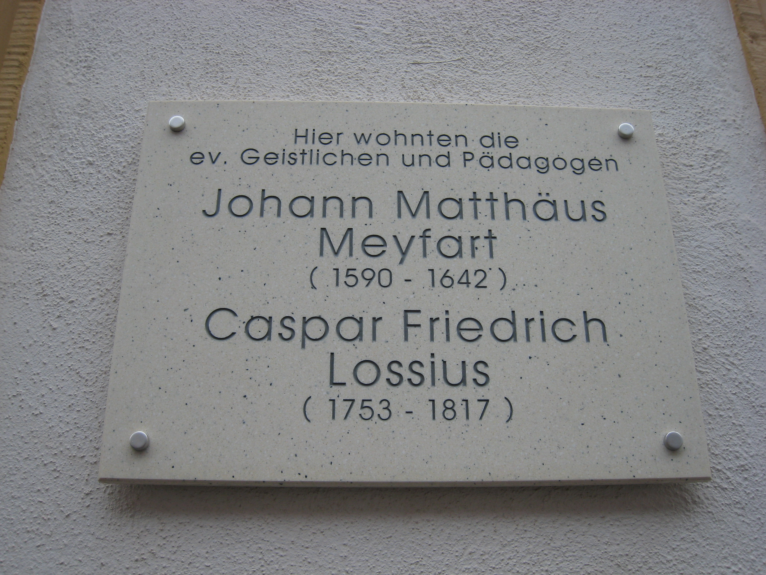 Memorial tablet for Johann Matthäus Meyfart and Kaspar Friedrich Lossius in Erfurt, Predigerstrasse 4